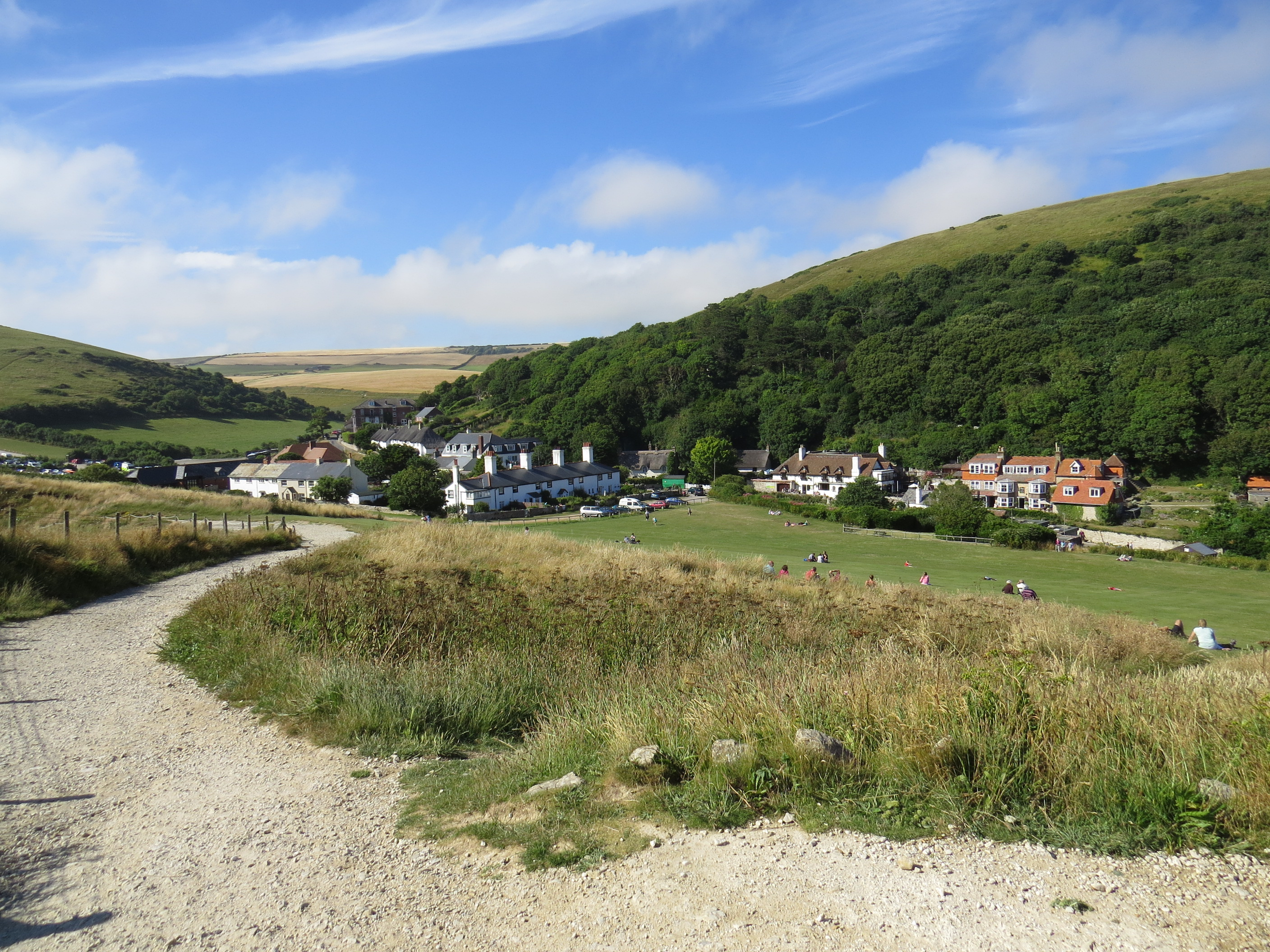 view of Lulworth village, Dorset from a nearby hill